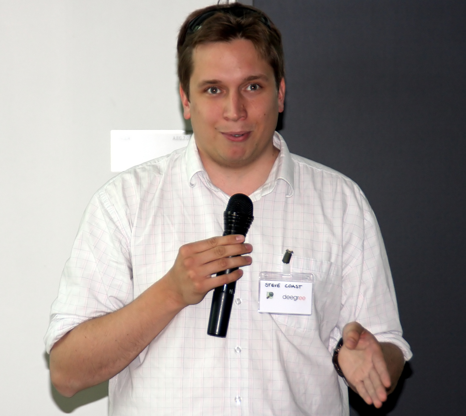 Steve Coast, Founder of OpenStreetMap, on the conference "OSM im Rheinland", Bonn, Germany